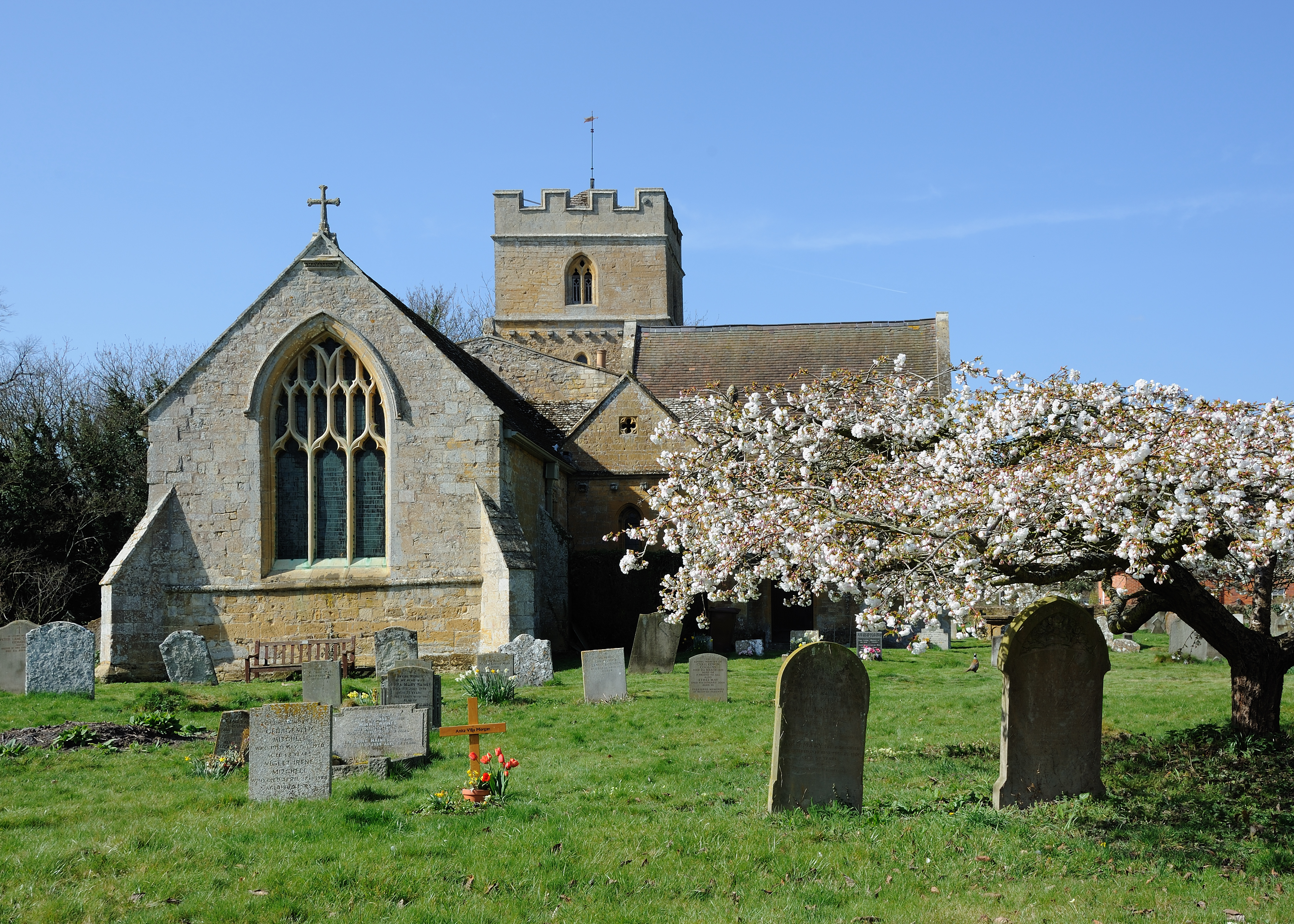 St Peter's Church is of Norman origin with mainly 13th-century additions. The chancel was rebuilt in 1862. The travel writer Patrick Leigh Fermor is buried in the churchyard with his wife Joan and there is a memorial to Arctic explorer Gino Watkins. The church is Grade 1 listed by English Heitage.